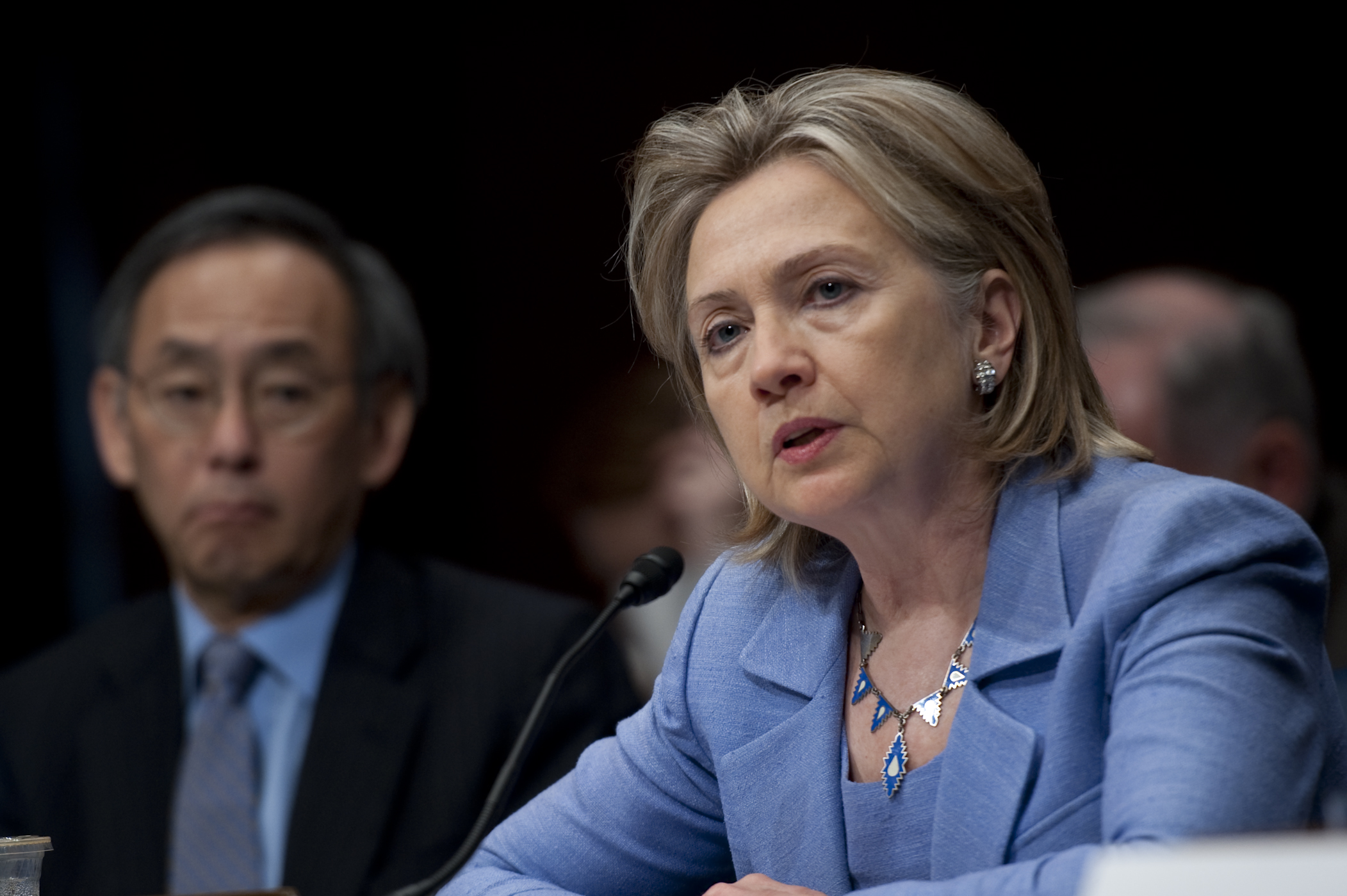 100617-N-0696M-241 Secretary of State Hillary Rodham Clinton testifies at a hearing of the Senate Armed Services Committee on the new Strategic Arms Reduction Treaty (START) and implications for national security programs on June 17, 2010 at Dirksen Senate Office Building in Washington, D.C. Clinton was joined by Secretary of Defense Robert M. Gates, Secretary of Energy, Dr. Steven Chu and Adm. Mike Mullen, chairman of the Joint Chiefs of Staff in testimony of a new US-Russia nuclear arms treaty. (DoD photo by Mass Communication Specialist Chad J. McNeeley/Released)